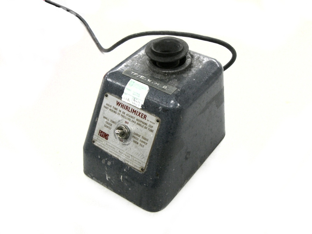 By Richard Wheeler (Zephyris) 2007. Whirlimixer brand vortex mixer.